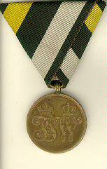 Campaing against Denmark Medal, 1864, Austro-Hungarian Empire